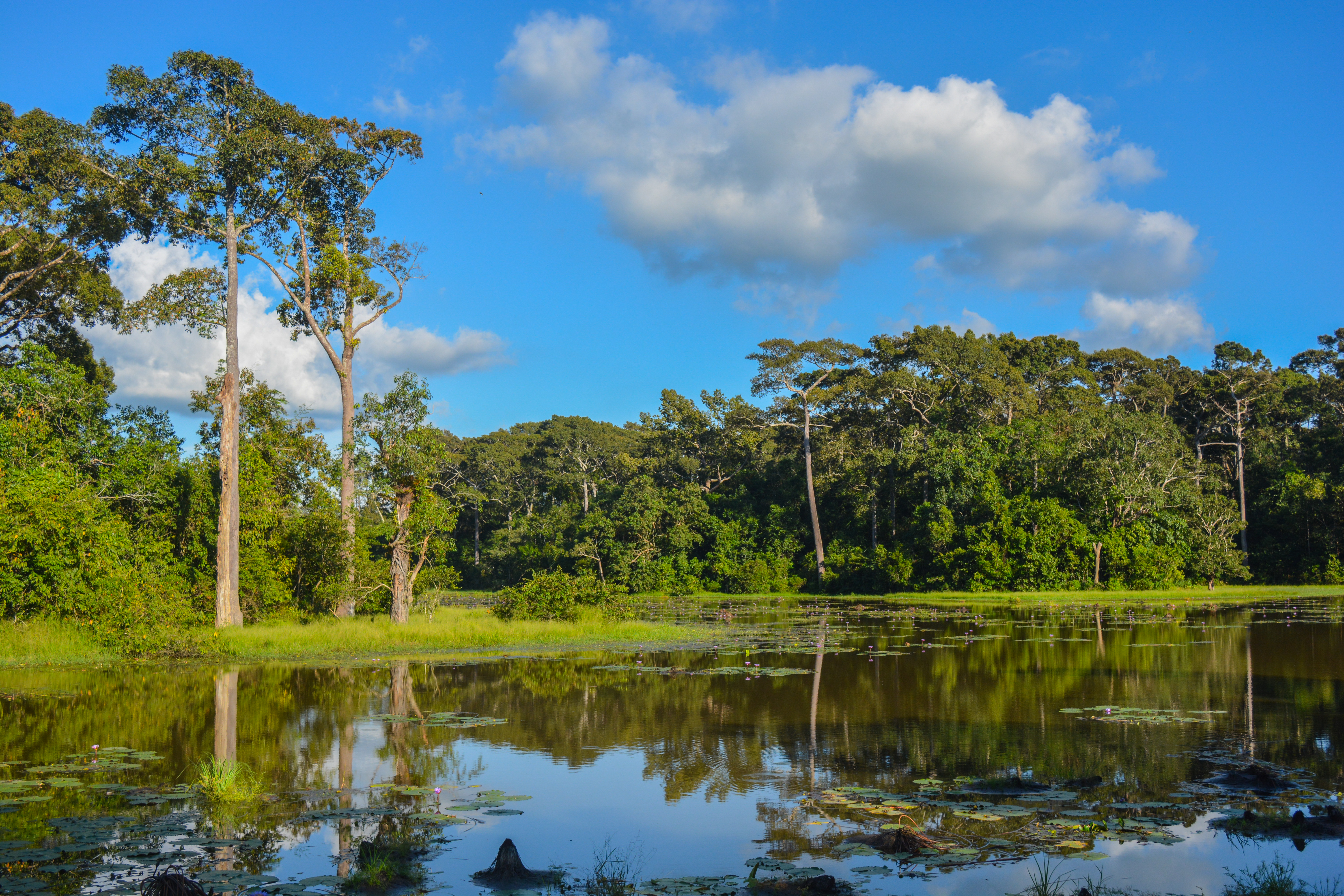 Dulahazara Safari Park was developed on an undulating landscape of around 2,224 acres (9.00 km2) of area at Chakaria Upazila in Cox's Bazar District, Bangladesh, some 107 km away from the port city, Chittagong, with an objective to create facilities for eco-tourism, research work and entertainment as well as from conserving wild animals in a natural environment.